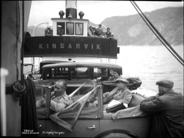 Norwegian cutter MK Kinsarvik in Eidfjord, 1932. The vessel was built in 1930 for Hardanger Sunnhordlandske Dampskibsselskap (HSD). Although not a car ferry, she was regularly carrying cars